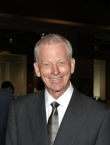 Photograph of biochemist William Rutter, co-founder of Chiron Corporation and former director of the Hormone Research Institute at the University of California, San Francisco (UCSF). William Rutter received the 2003 Biotechnology Heritage Award from the Chemical Heritage Foundation and the Biotechnology Industry Organization (BIO) at a plenary breakfast at the four-day BIO 2003 Annual Convention, June 22-25, 2003, at the Washington, D.C., Convention Center. The Biotechnology Heritage Award recognizes individuals who have made significant contributions to the development of biotechnology through discovery, innovation, and public understanding.